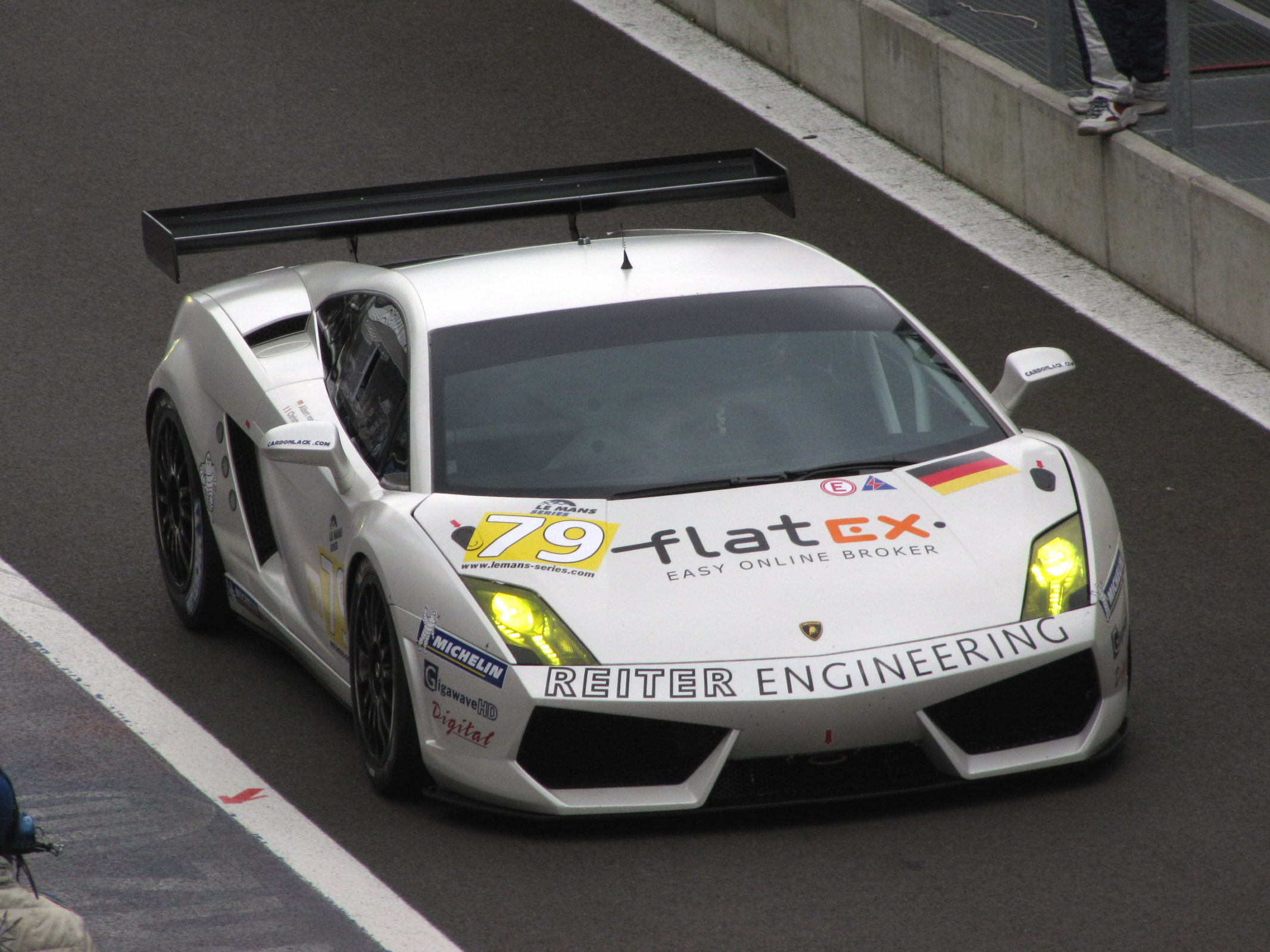 Christophe Bouchut driving a Lamborghini Gallardo LP560 GT2 in training saison in Spa 2009.